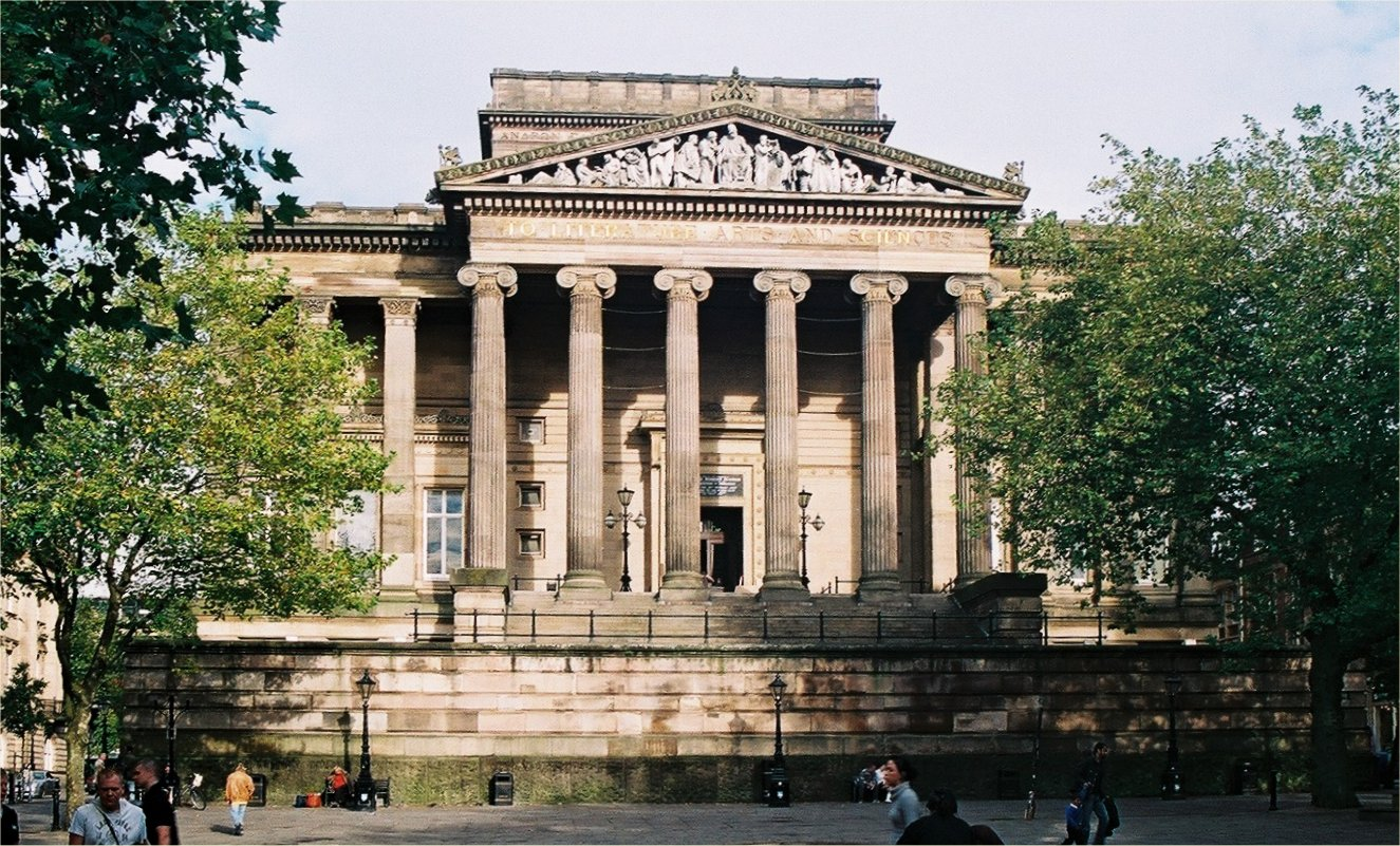 The Harris Museum, Art Gallery and Library in Preston, Lancashire, England.